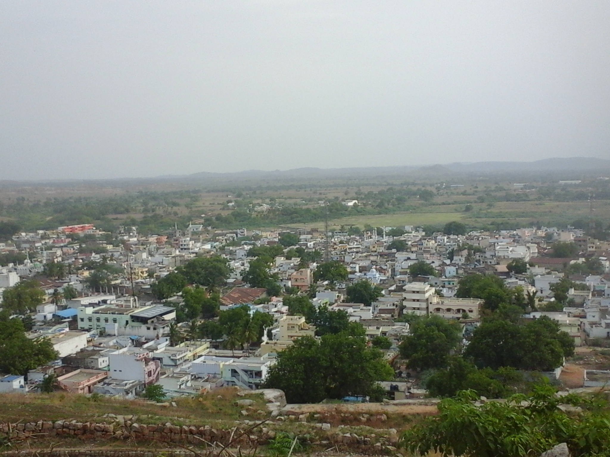 Yadgir town view from fort ಕನ್ನಡ: ಯಾದಗಿರಿ ಕೋಟೆಯ ಮೇಲಿಂದ ಪಟ್ಟಣದ ಒಂದು ನೋಟ